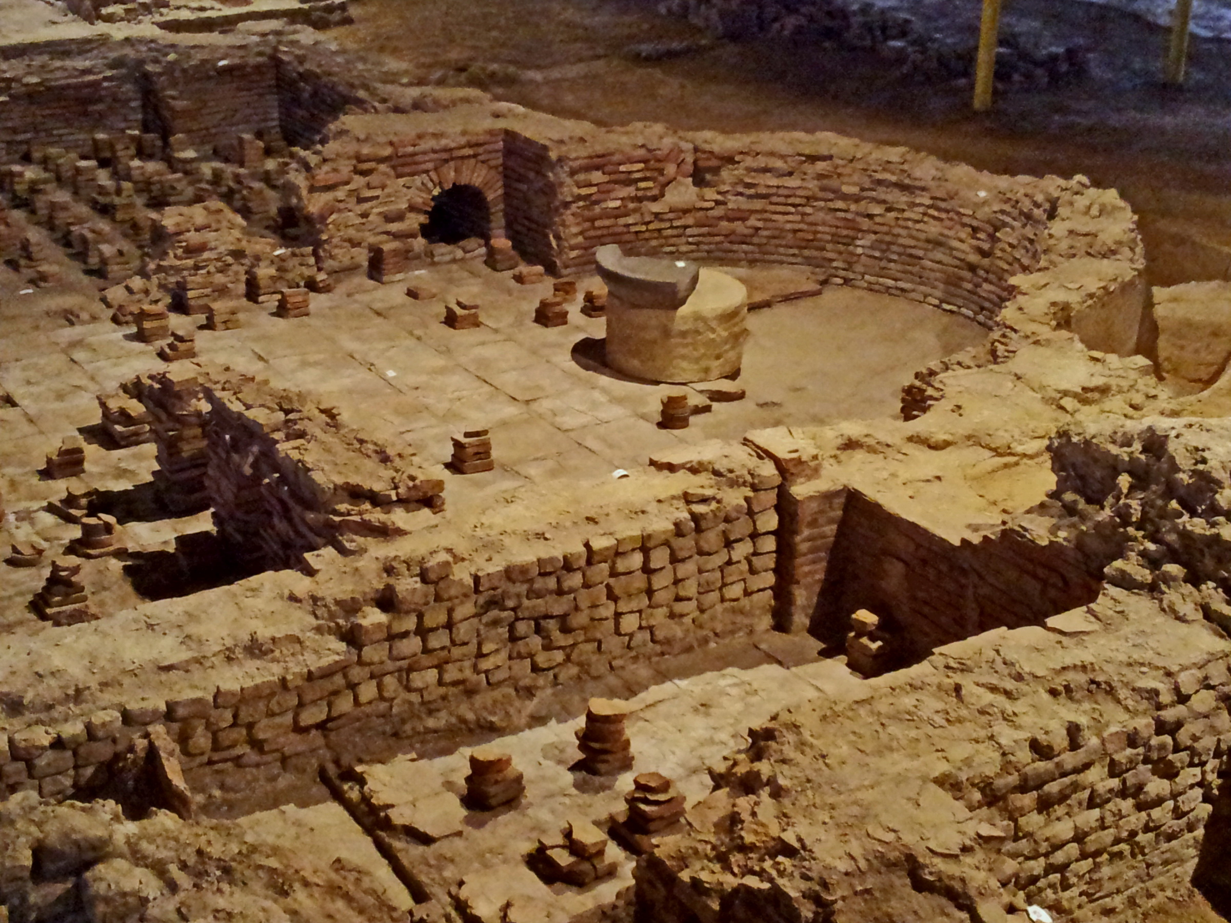 View of the excavations of the Roman baths in Heerlen, the Netherlands. The remains are preserved inside the Thermenmuseum.